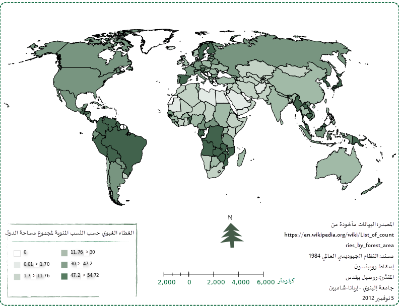 Choropleth map of forest area by country.